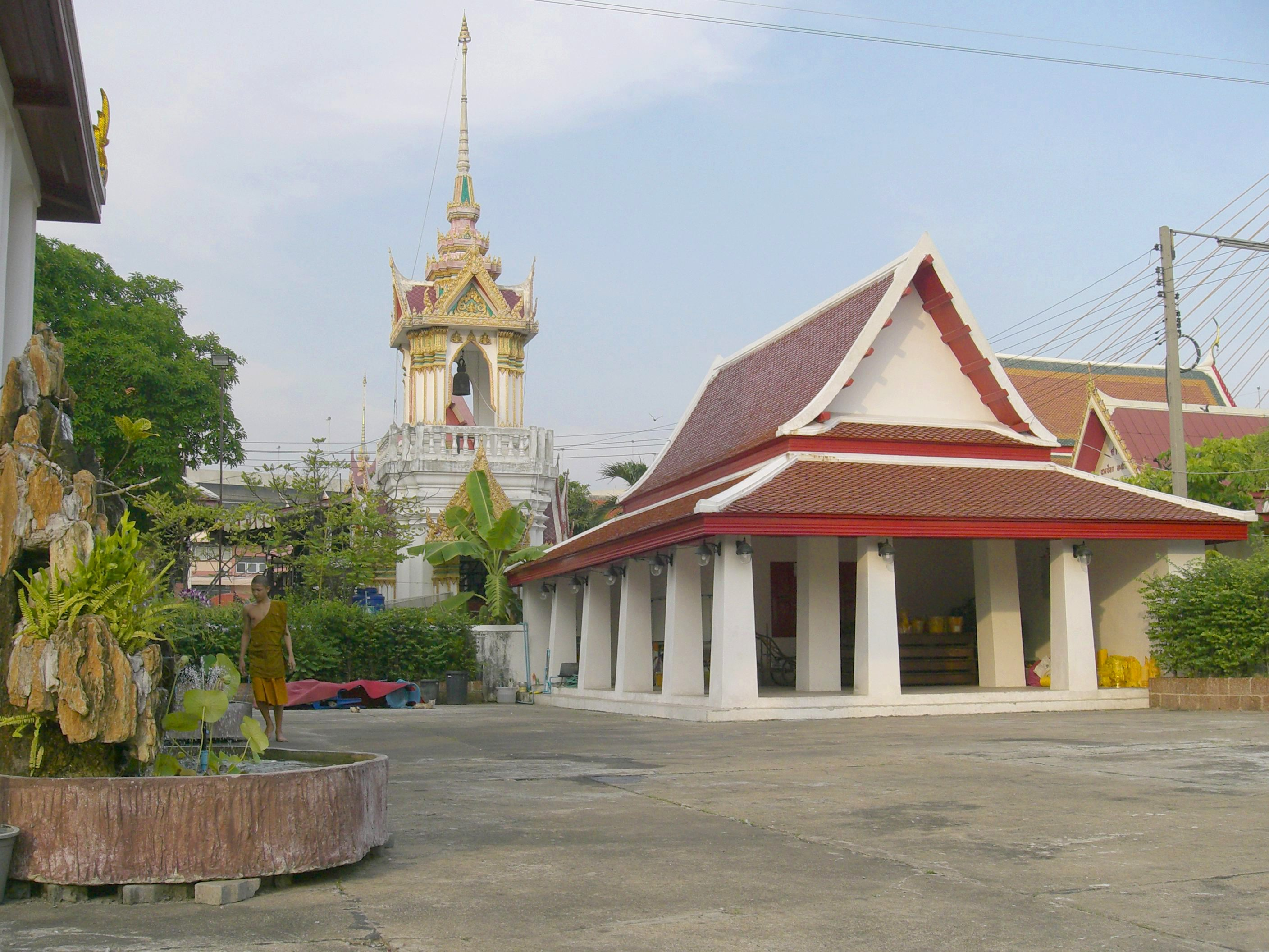 Sala Rai and belltower at Wat Song Tham Woraviharn in Samut Prakan province, central Thailand (see: Phra Pradaeng)